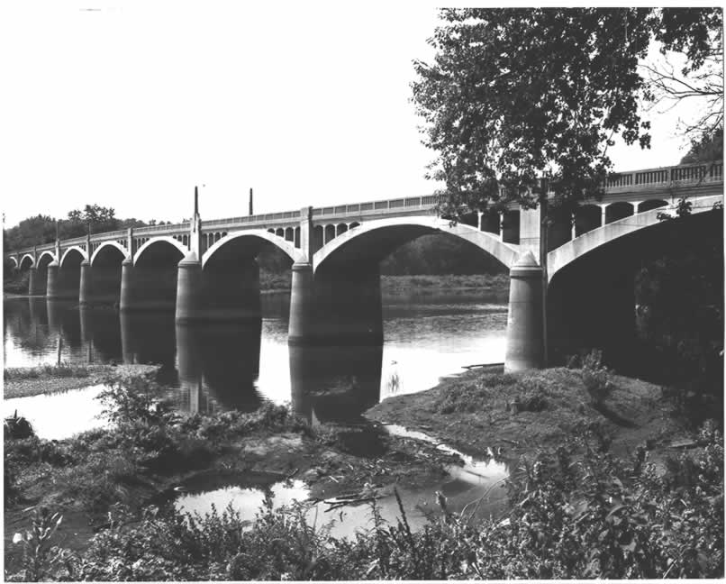 Side of the Watsontown River Bridge, which carries a spur of Legislative Route 240 over the West Branch of the Susquehanna River between Watsontown in Northumberland County and White Deer Township in Union County in the U.S. state of Pennsylvania. Built in 1927, this open spandrel concrete deck arch bridge is listed on the National Register of Historic Places.